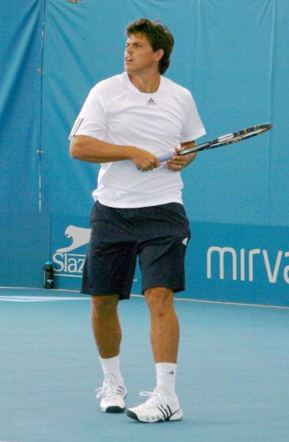 Taylor Dent during practice at the 2009 Brisbane International